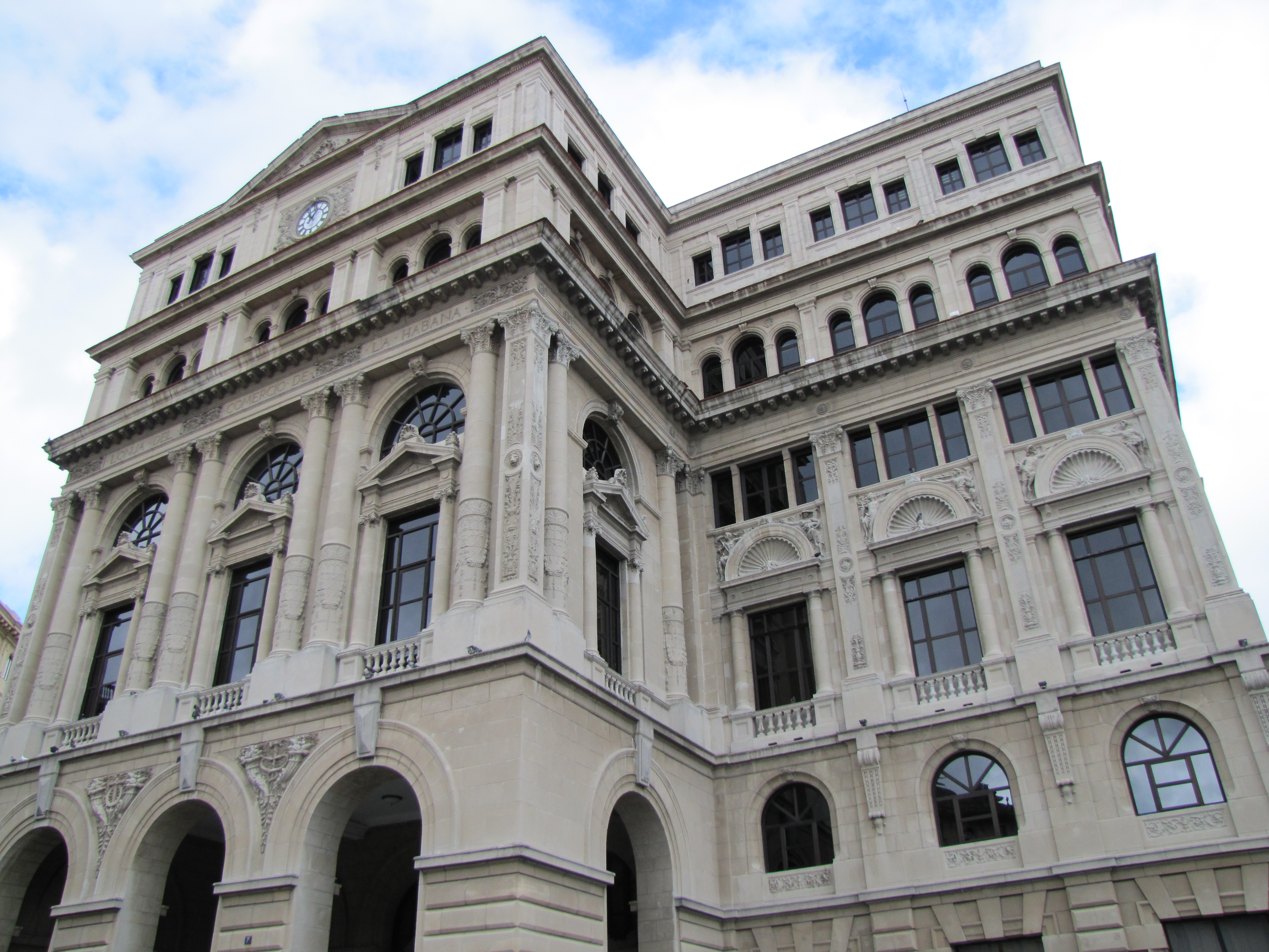 A building in downtown Havana: Lonja del Comercio de La Habana